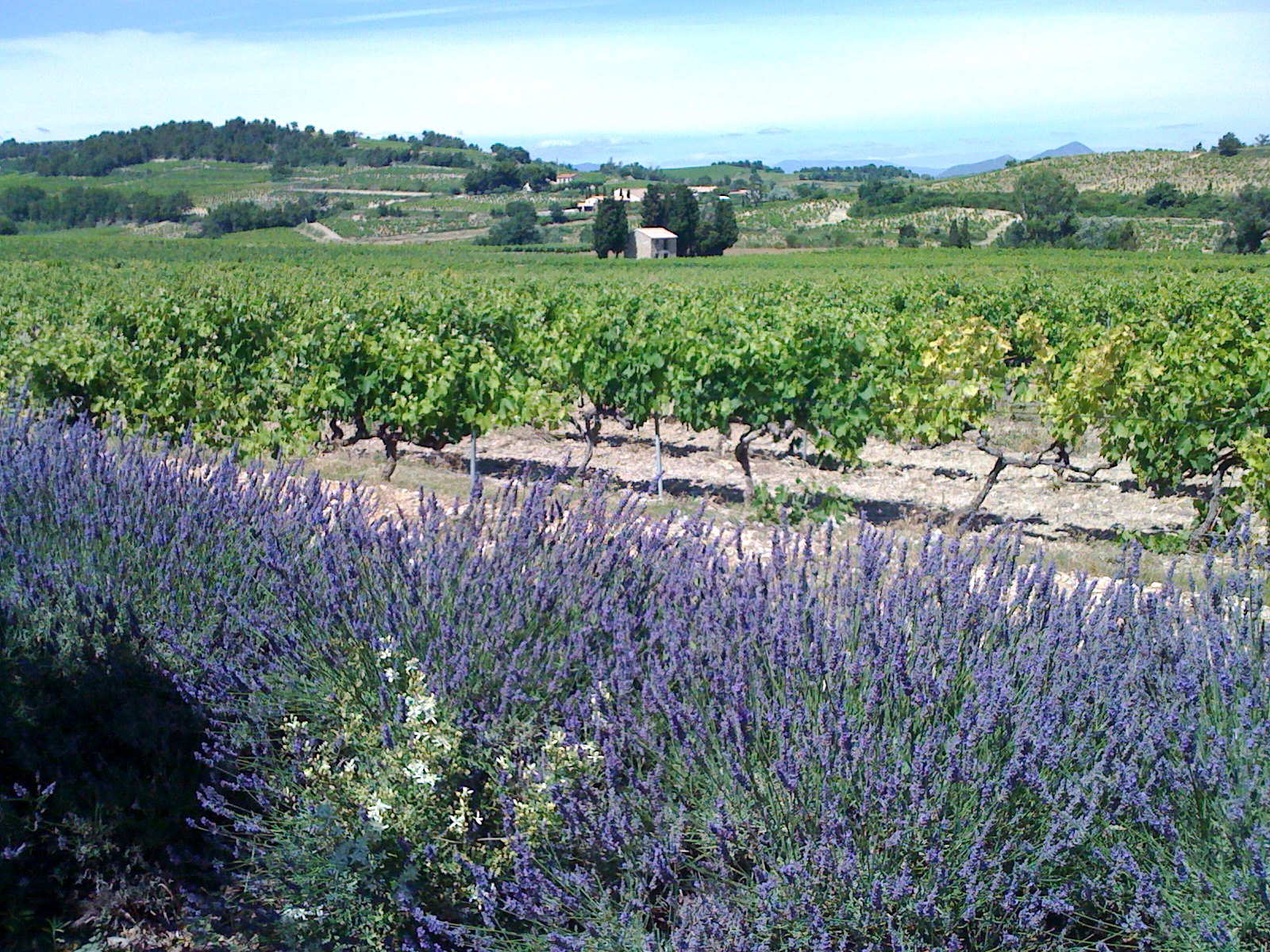 Vineyard in the French wine region of the Cotes du Rhone-Village.